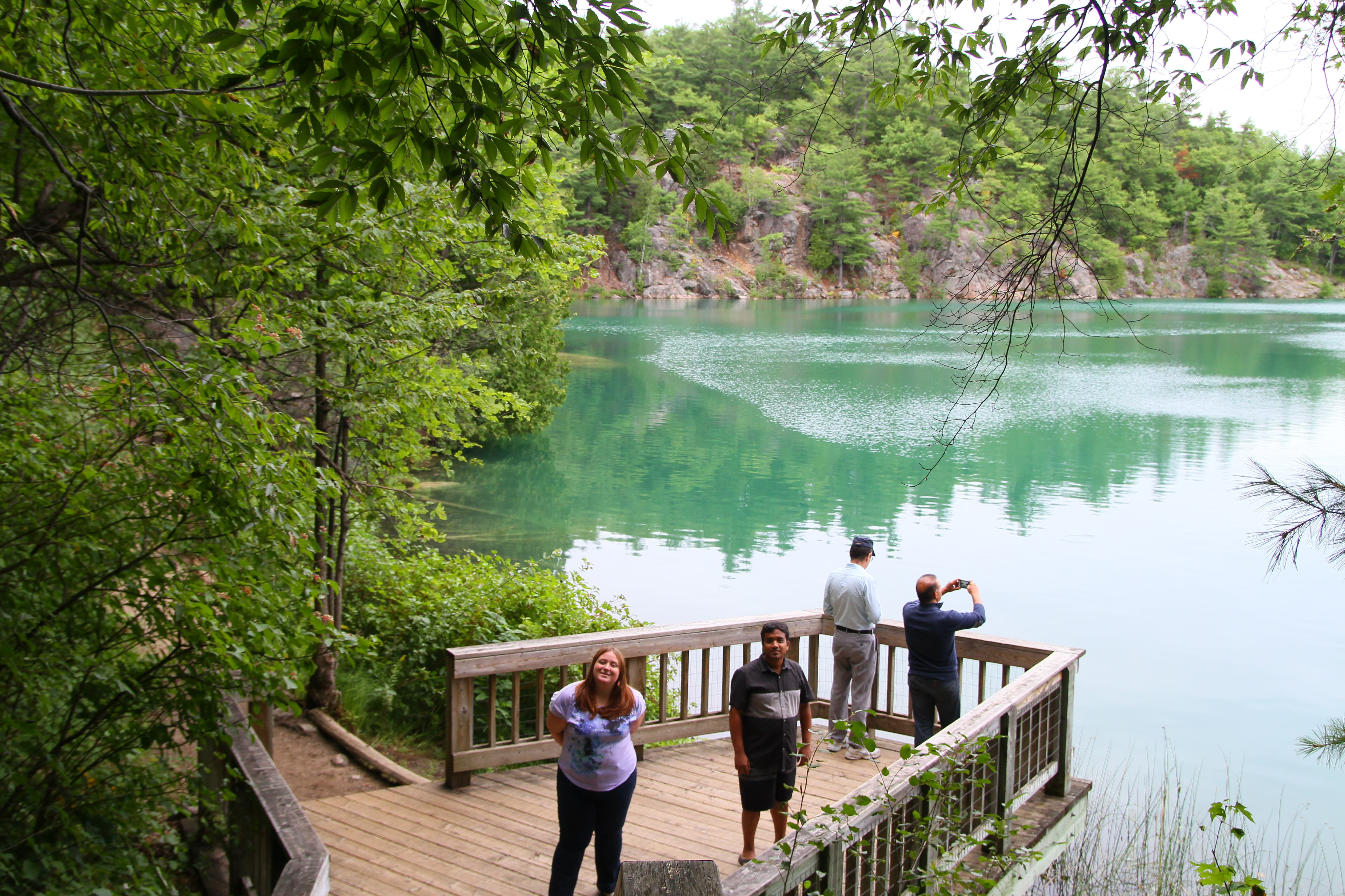 The lake looks extremely green during the month of August and September due to excessive goth of Algiers